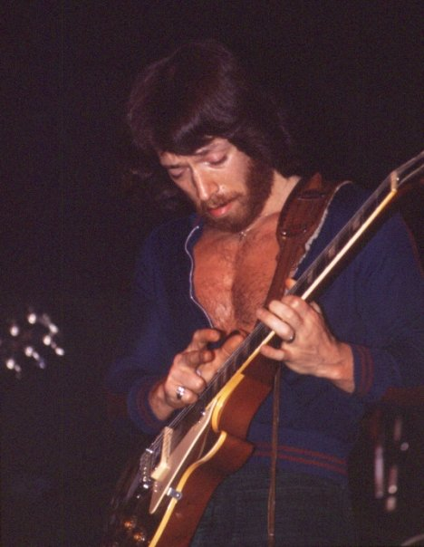 Harvey Mandel performing hammer ons and pull offs at the Golden Bear in Huntington Beach CA, 1977